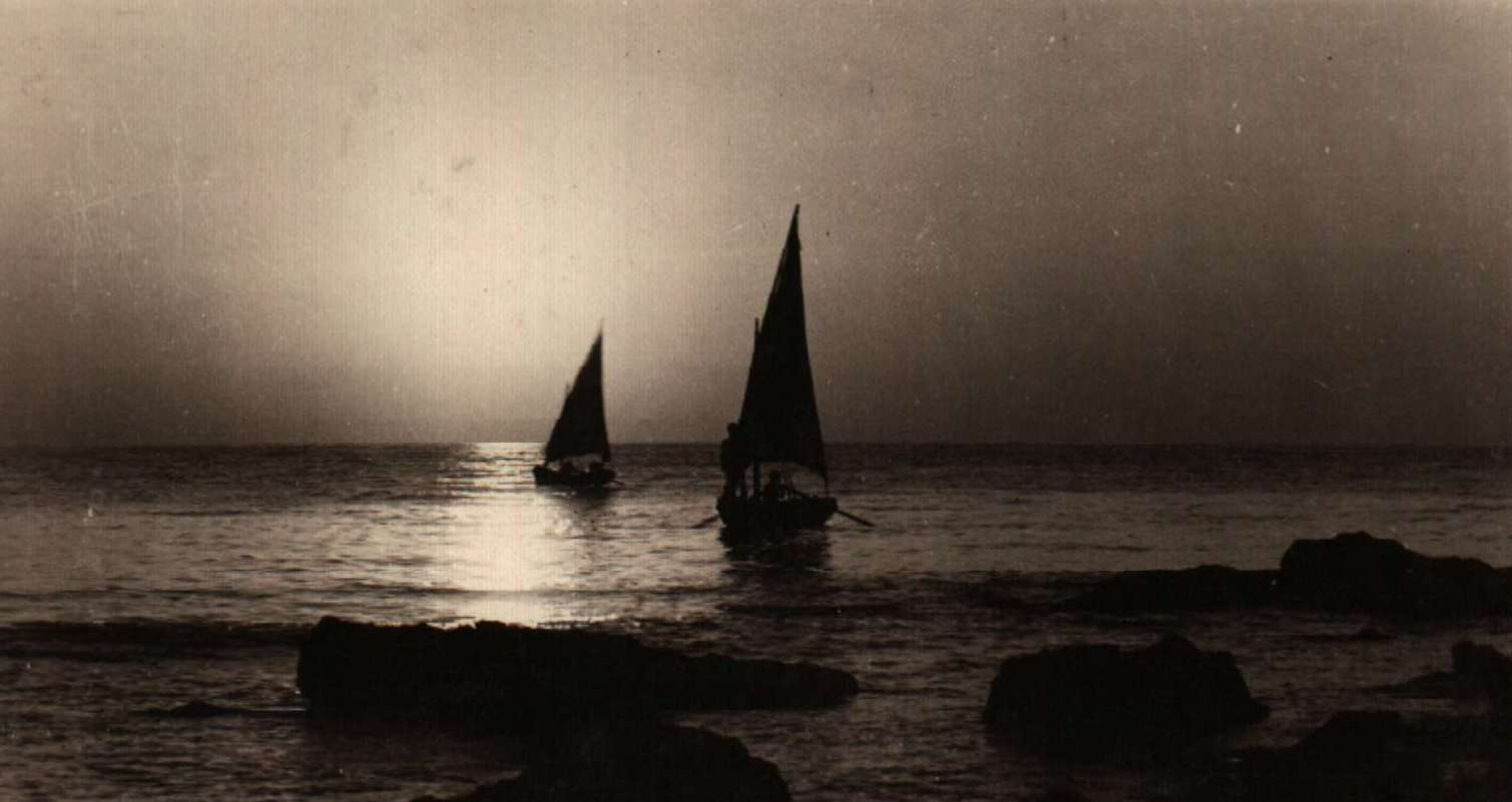 Black sea from Varna, Bulgaria